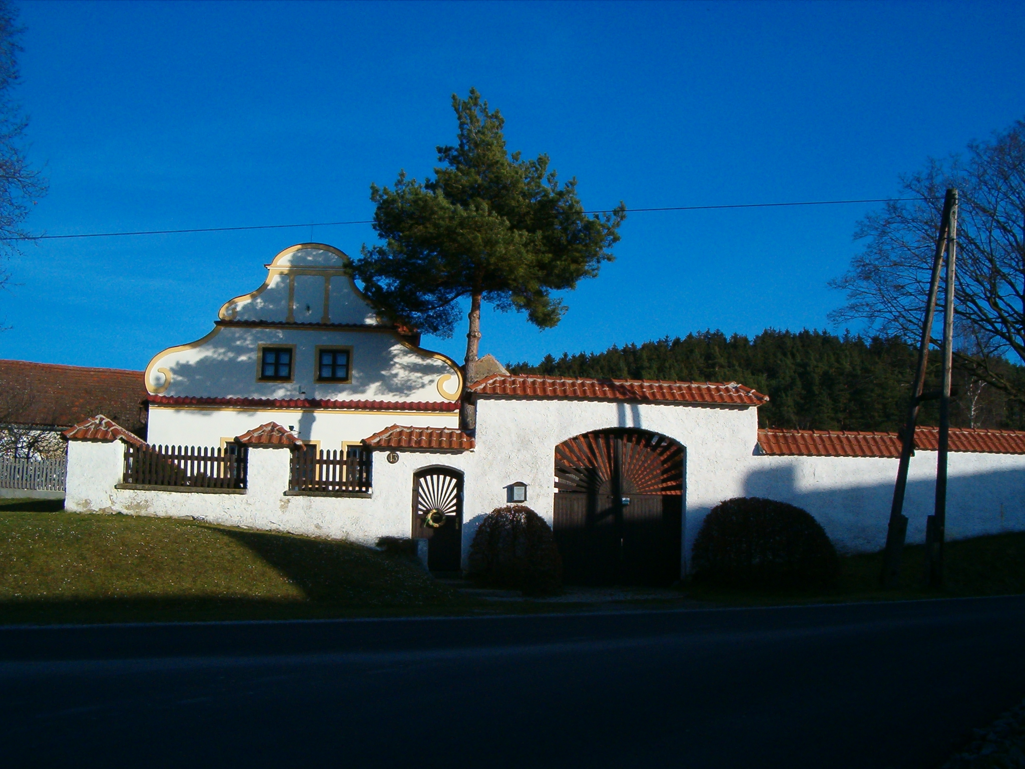 Třešovice village, South Bohemia